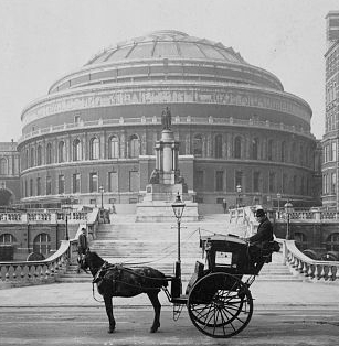 A hansom cab parked in front of the Royal Albert Hall, London, 1904.